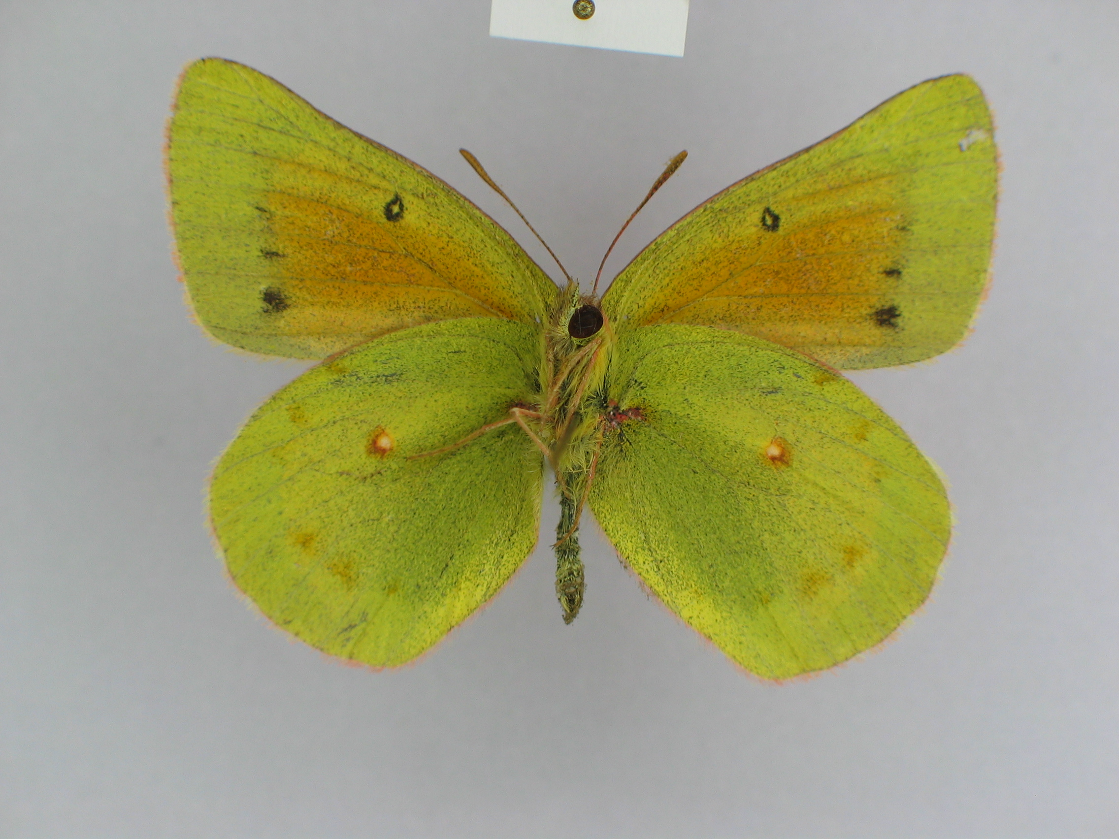 Paratype of the species Colias adelaidae adelaidae from the collection of the Zoologische Staatssamlung München; ♂ ventral side; scalebar=1 cm